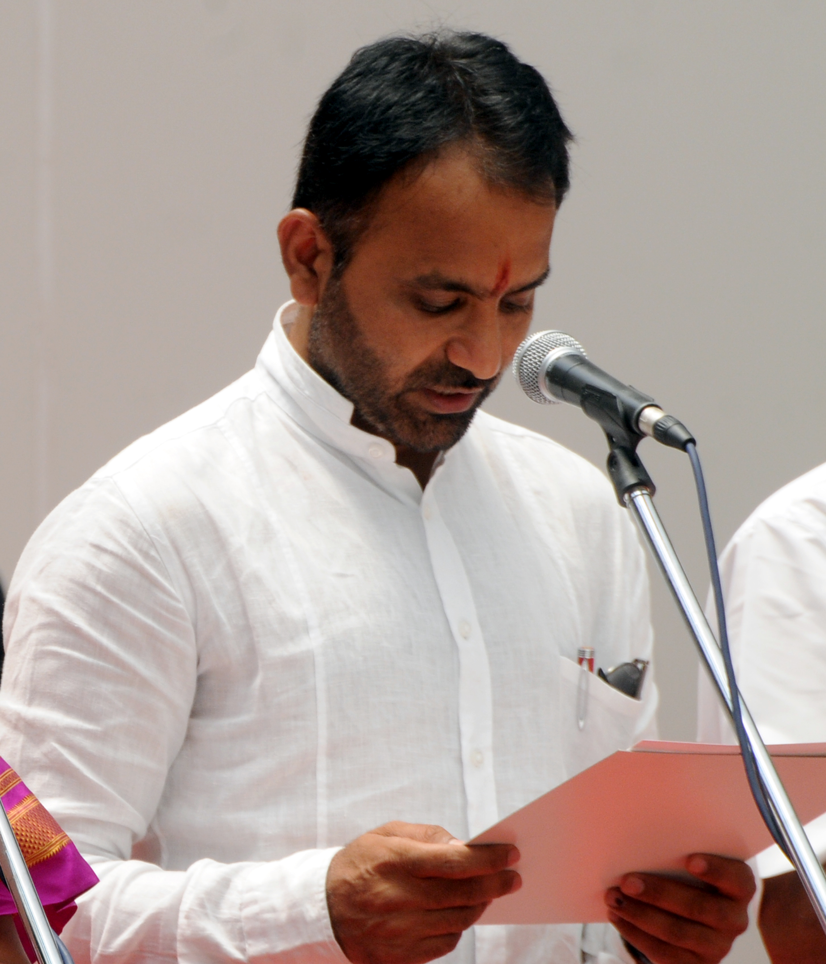 Mr. Santosh S Lad sworn in as Minister of Information and Infrastructure